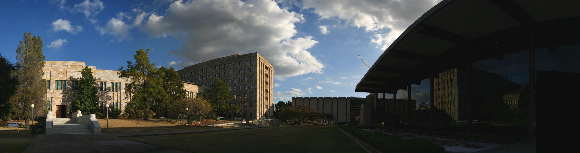 Forgan Smith, Michie, Biology Library and Mayne Hall Buildings at the University of Queensland, St Lucia, Queensland, Australia.